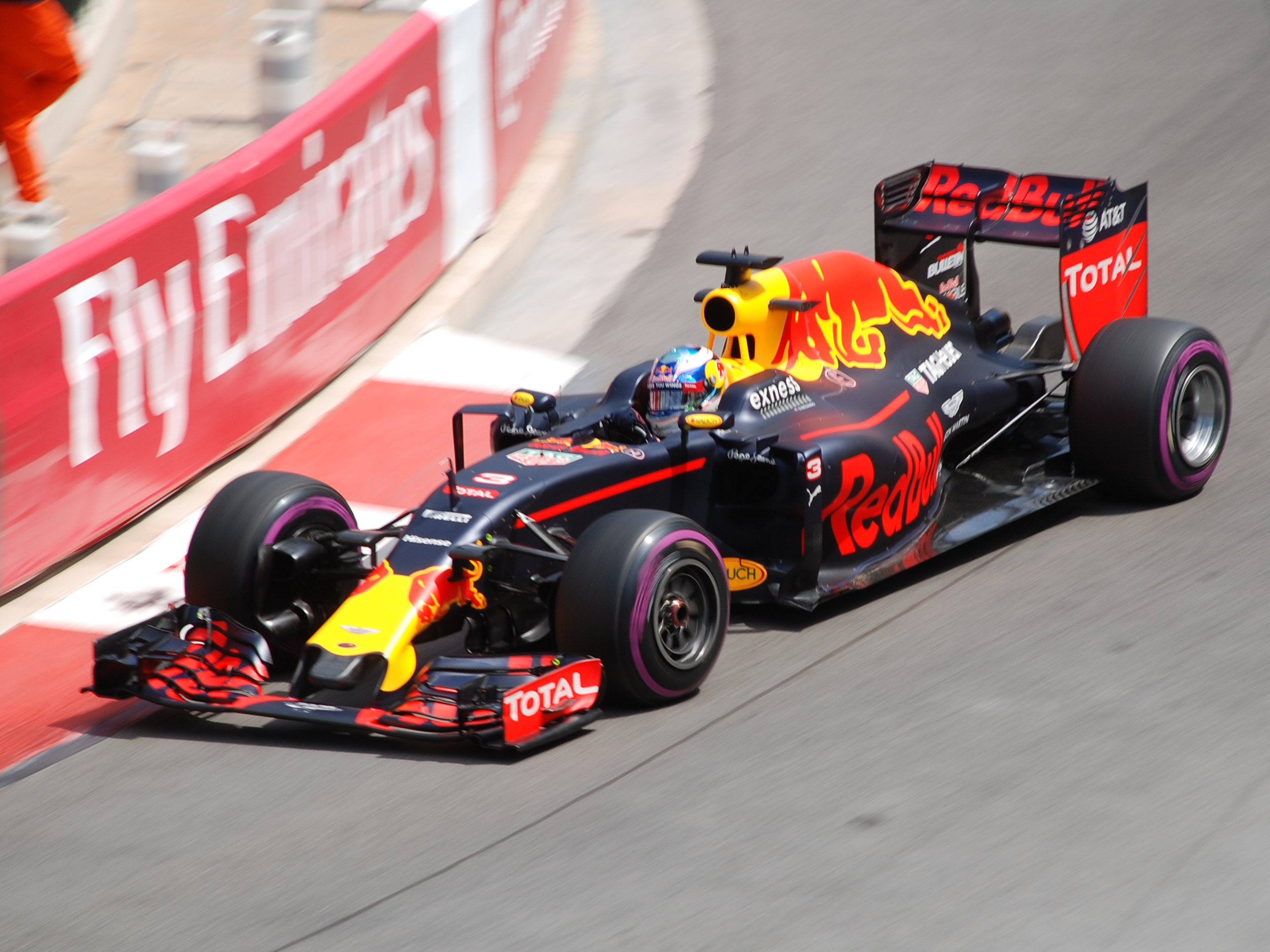 Daniel Ricciardo at the 2016 Monaco Grand Prix